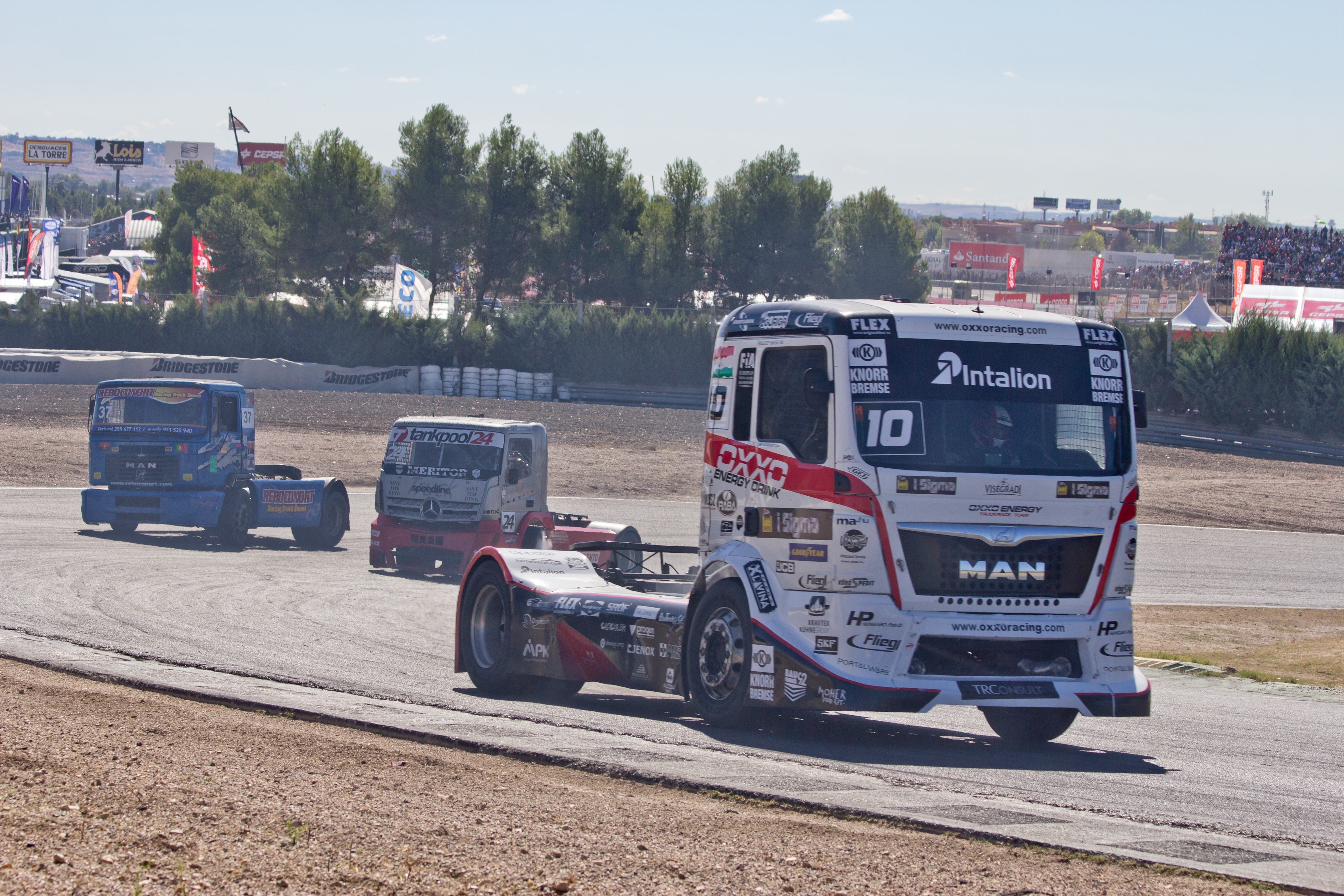 Truck pilot Norbert Kiss at the Spain Truck GP 2013.